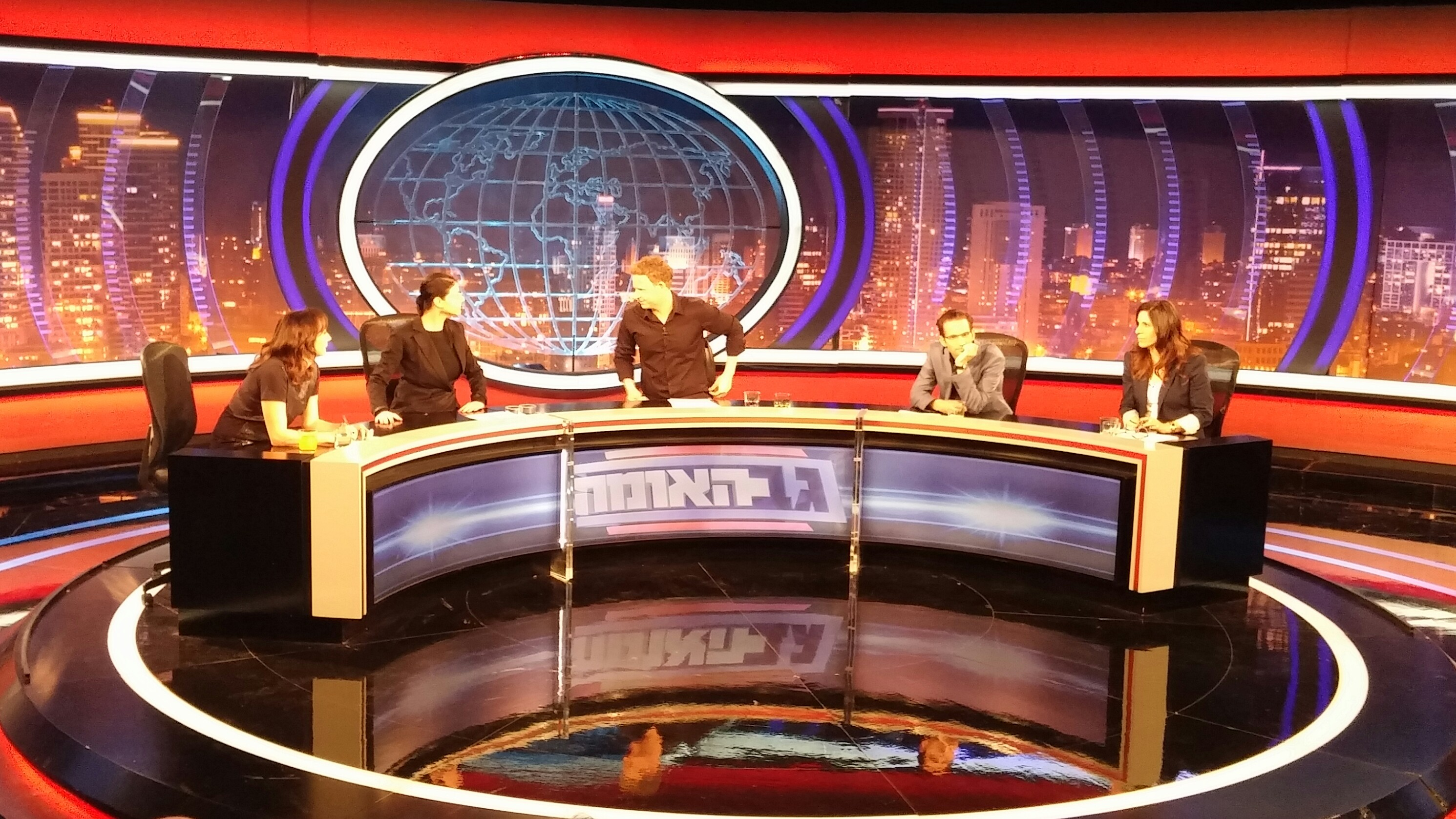 "Gav Ha'uma", a satirical Israeli television show. Filmed in Herzliya, 2015.